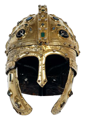 Late Roman ridge helmet